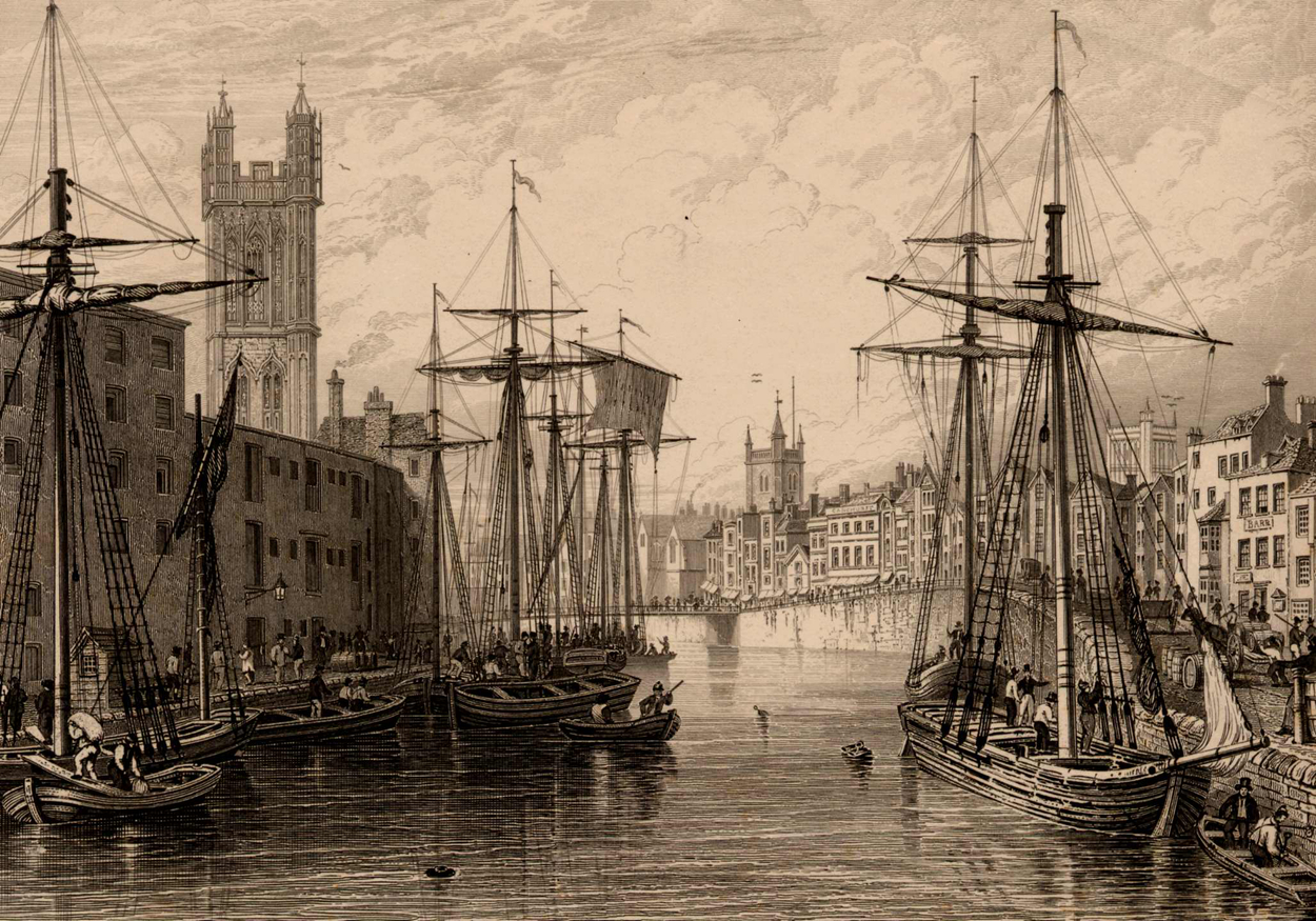 Black and white etching of the harbour in Bristol, England in about 1850, with 10 sailing vessels and rowing boats. The towers in the background are those of St Stephen's parish church (left), St Augustine the Less (centre) and Bristol Cathedral (right). The channel was filled in 1892–1938 and the church of St Augustine the Less was demolished in 1962.